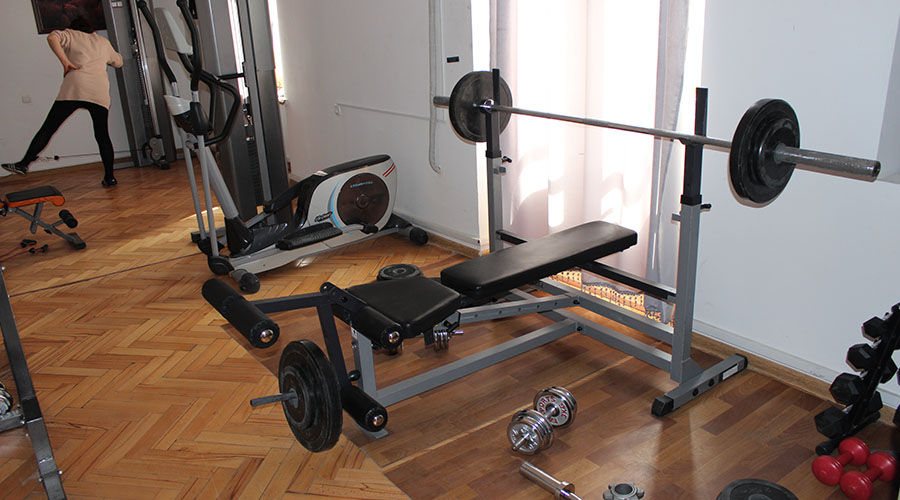 sports